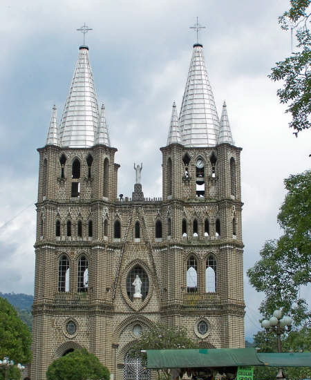 Main Church. Facade of the Basilica in Jardin Colombia, Jardin, Colombia.